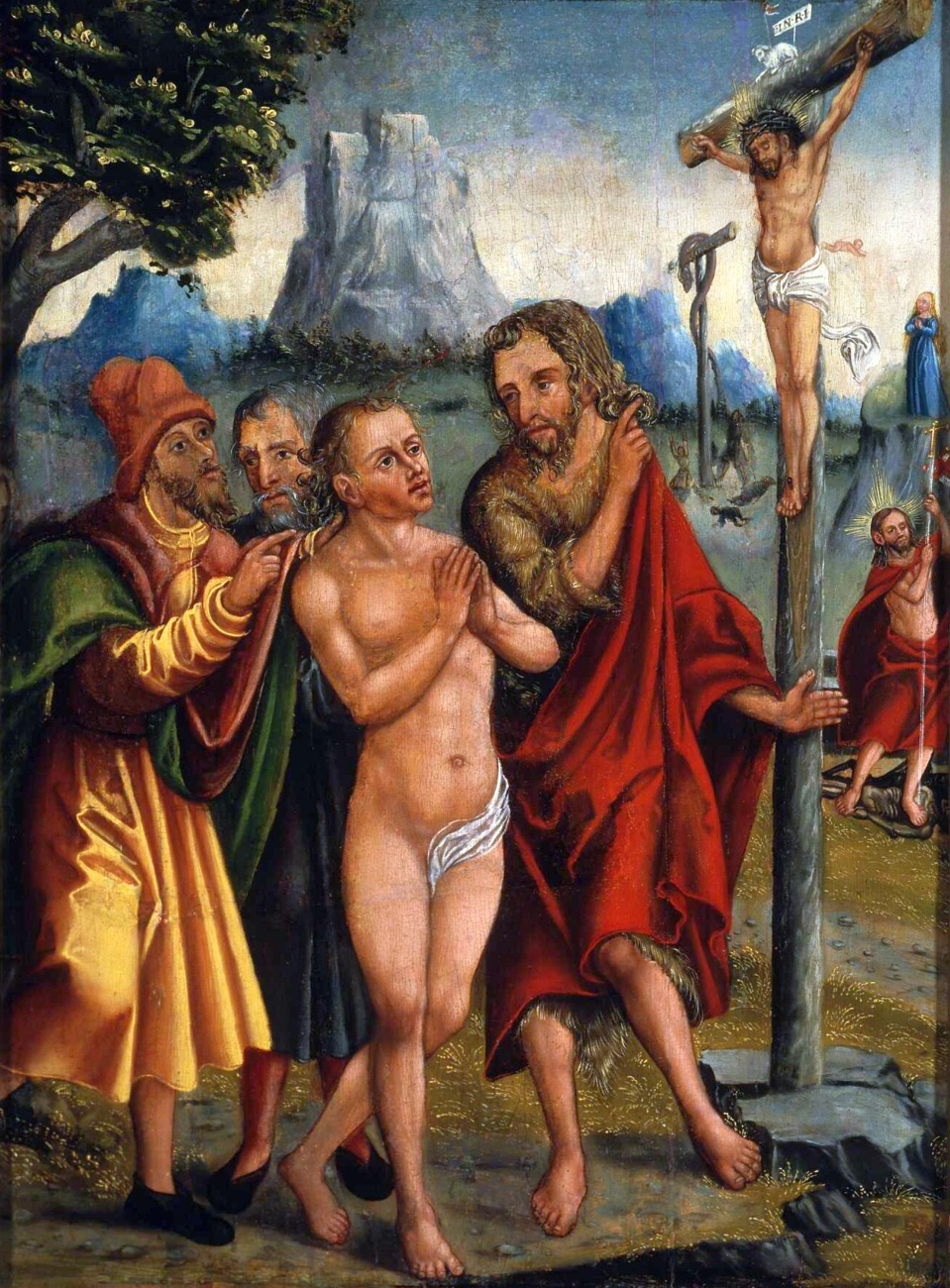 John the Baptist makes a man (Adam), clothed only with a loin cloth aware of the crucified Jesus. Behind the man are standing Isaiah and an apostle. In the background are shown the Brazen Serpent, the Annunciation to the Virgin and Christ triumphing over Death and the Devil.